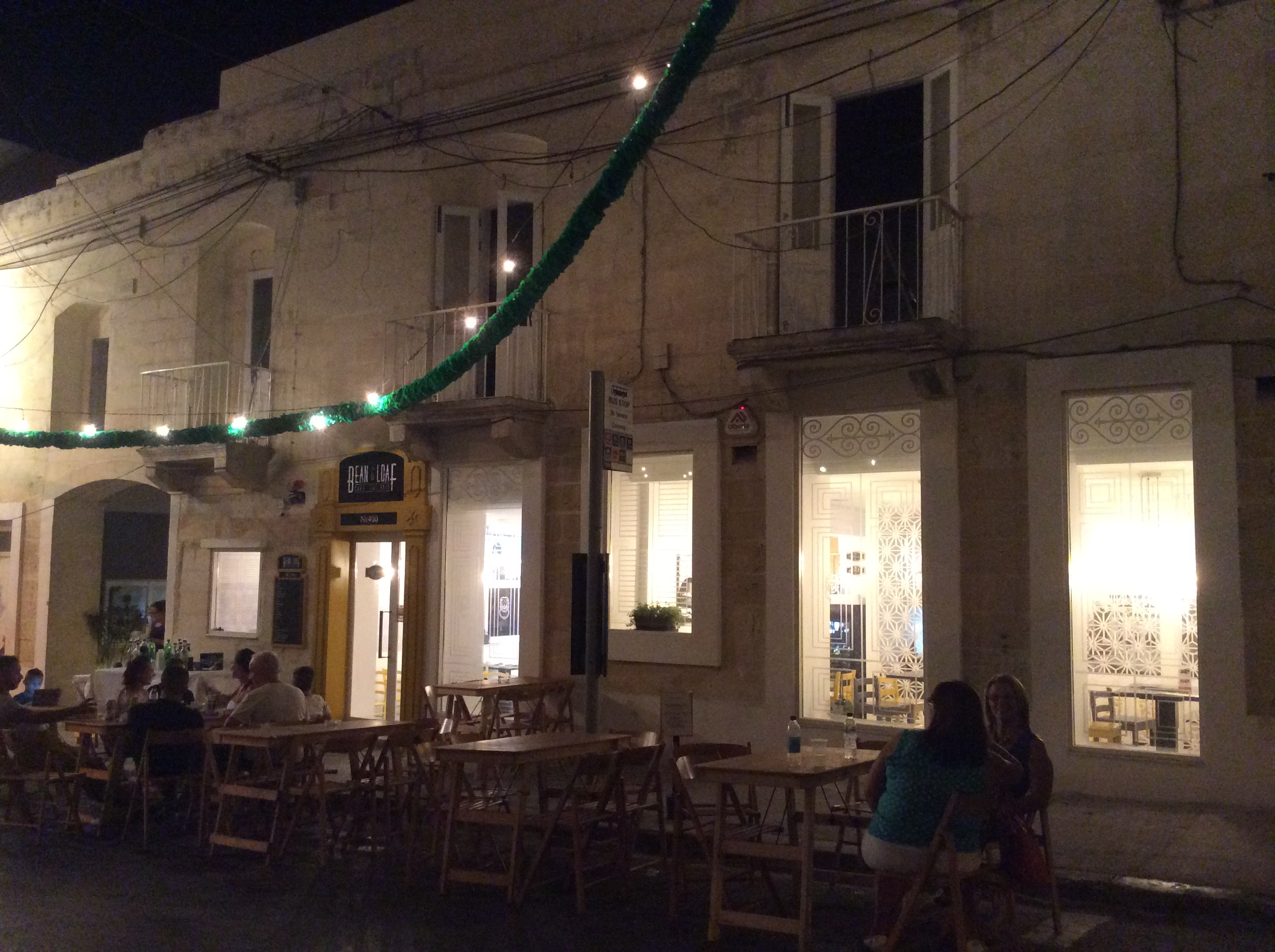 Santa Venera feast